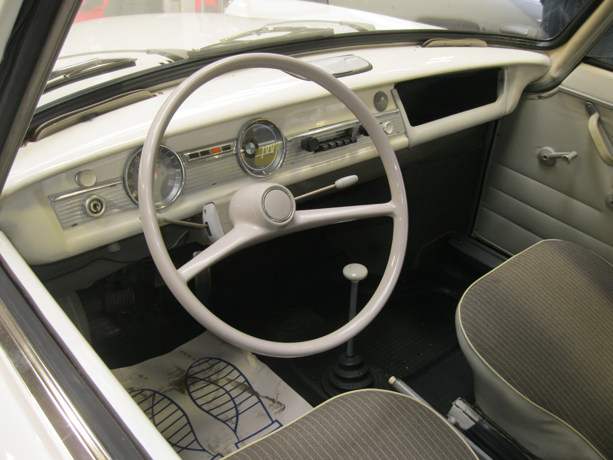 Small rear-engined BMW saloon from the early 1960s - spotted at the NEC Classic Show November 2012.